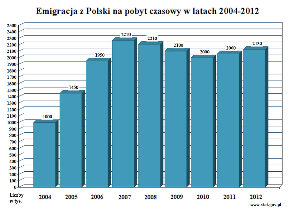 Temporary emigration from Poland in 2004-2012 according to Office of Statistics GUS, 2013.